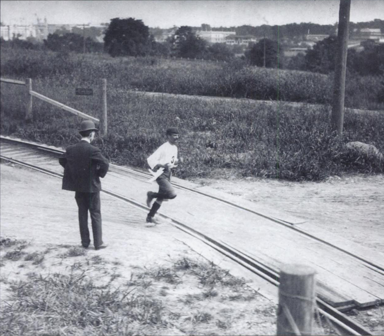 Cuban runner Felix Carvajal on his way at St.Louis Olympic Games' Marathon / 1904